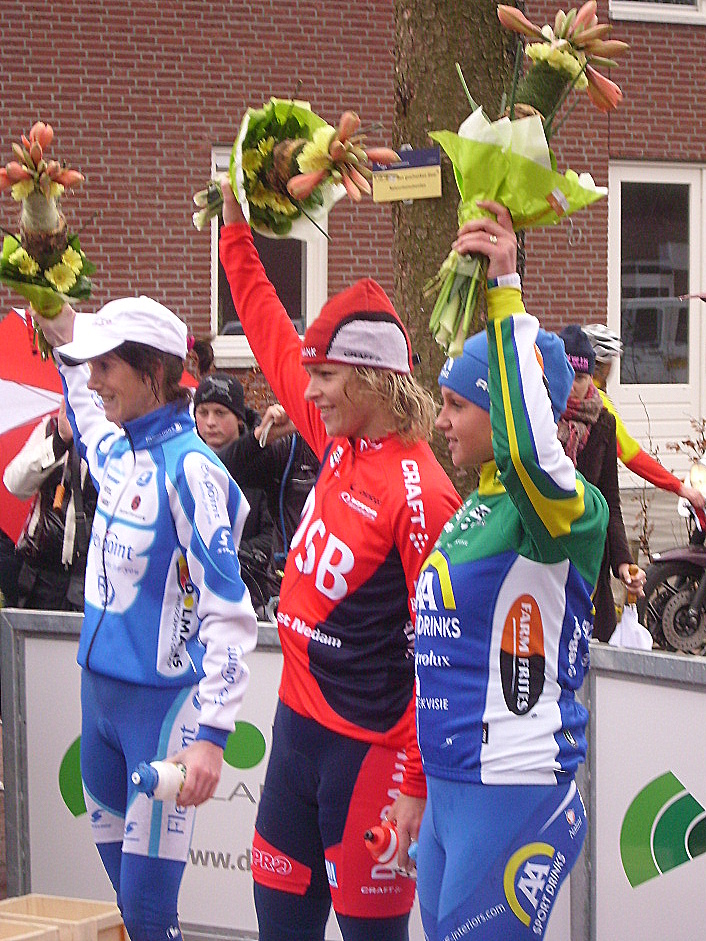 Podium of the Dolmans Heuvelland Classic. Sunday March 30, 2008. Saskia Elemans (2nd), Sharon van Essen (1st), Chantal Blaak (3th).